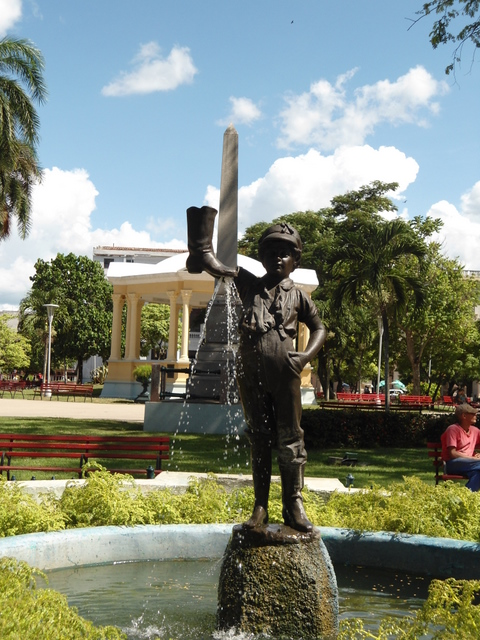 Photo of fountain located in Parque Vidal at Santa Clara city, Cuba.